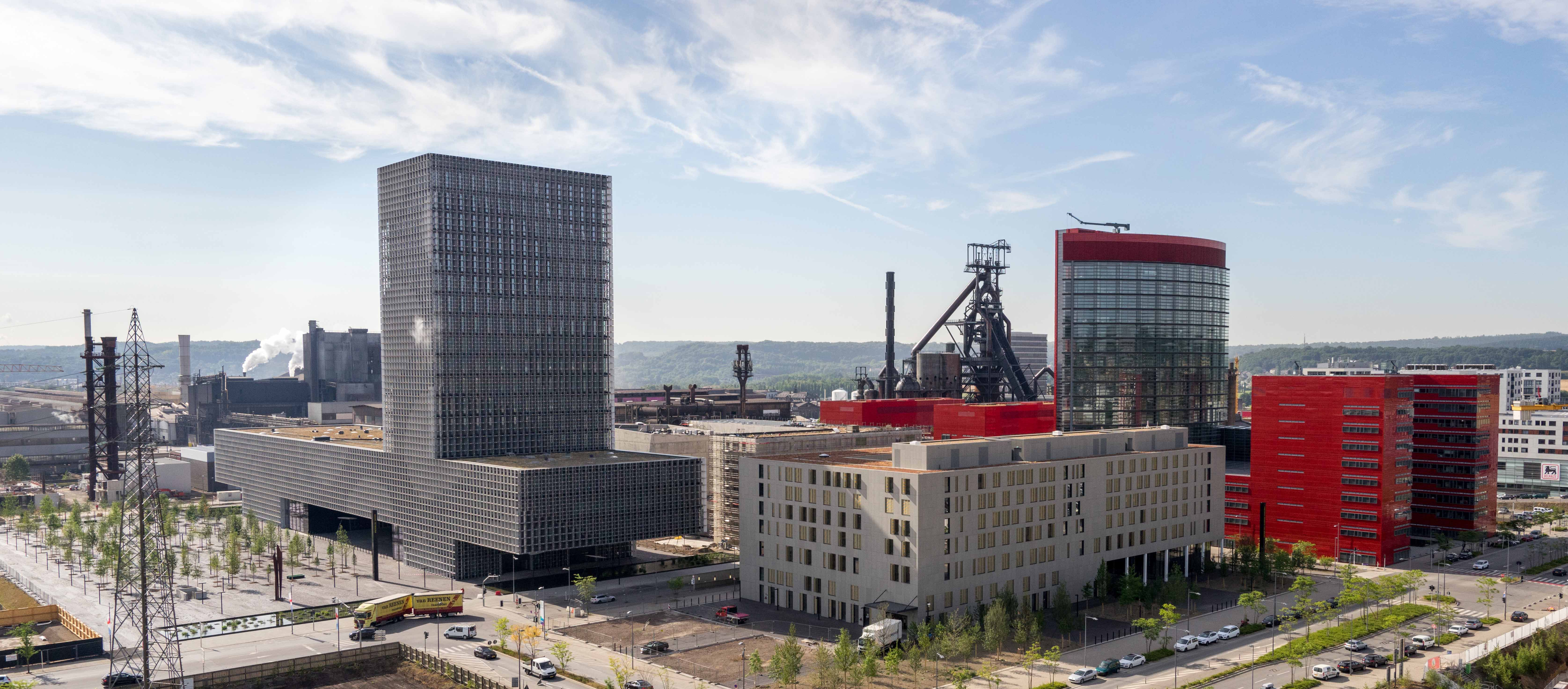 The main campus of the University of Luxembourg is the Belval Campus.